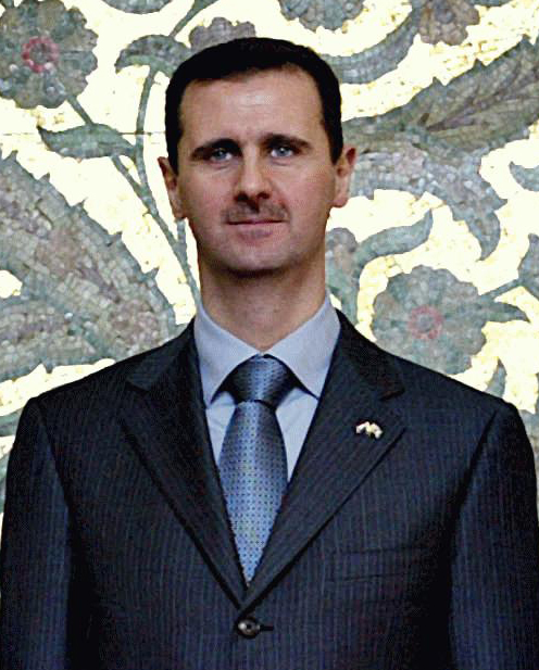 President Bashar al-Assad of Syria. Original background.